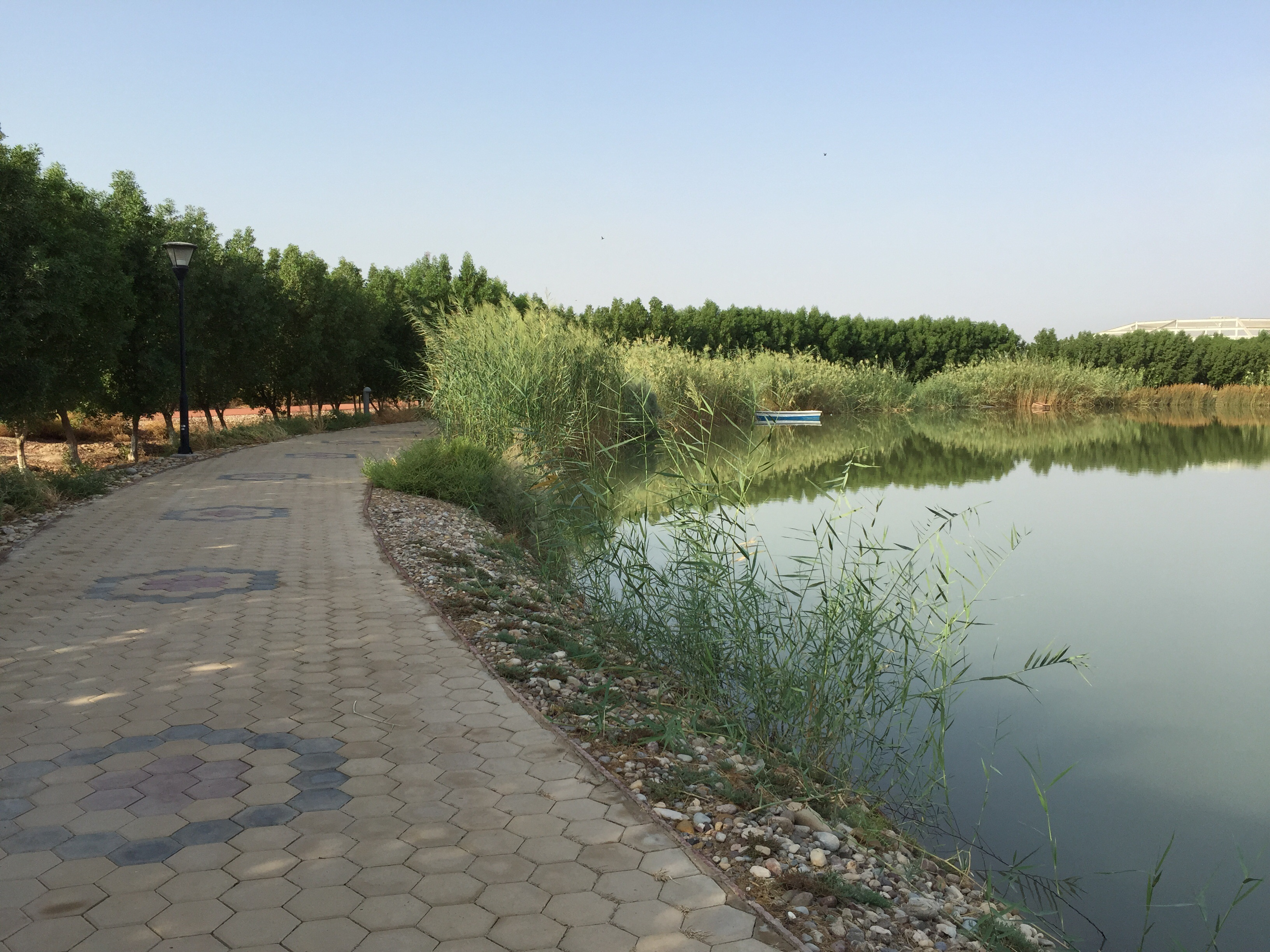 Template:Wiki Loves Earth Iraq